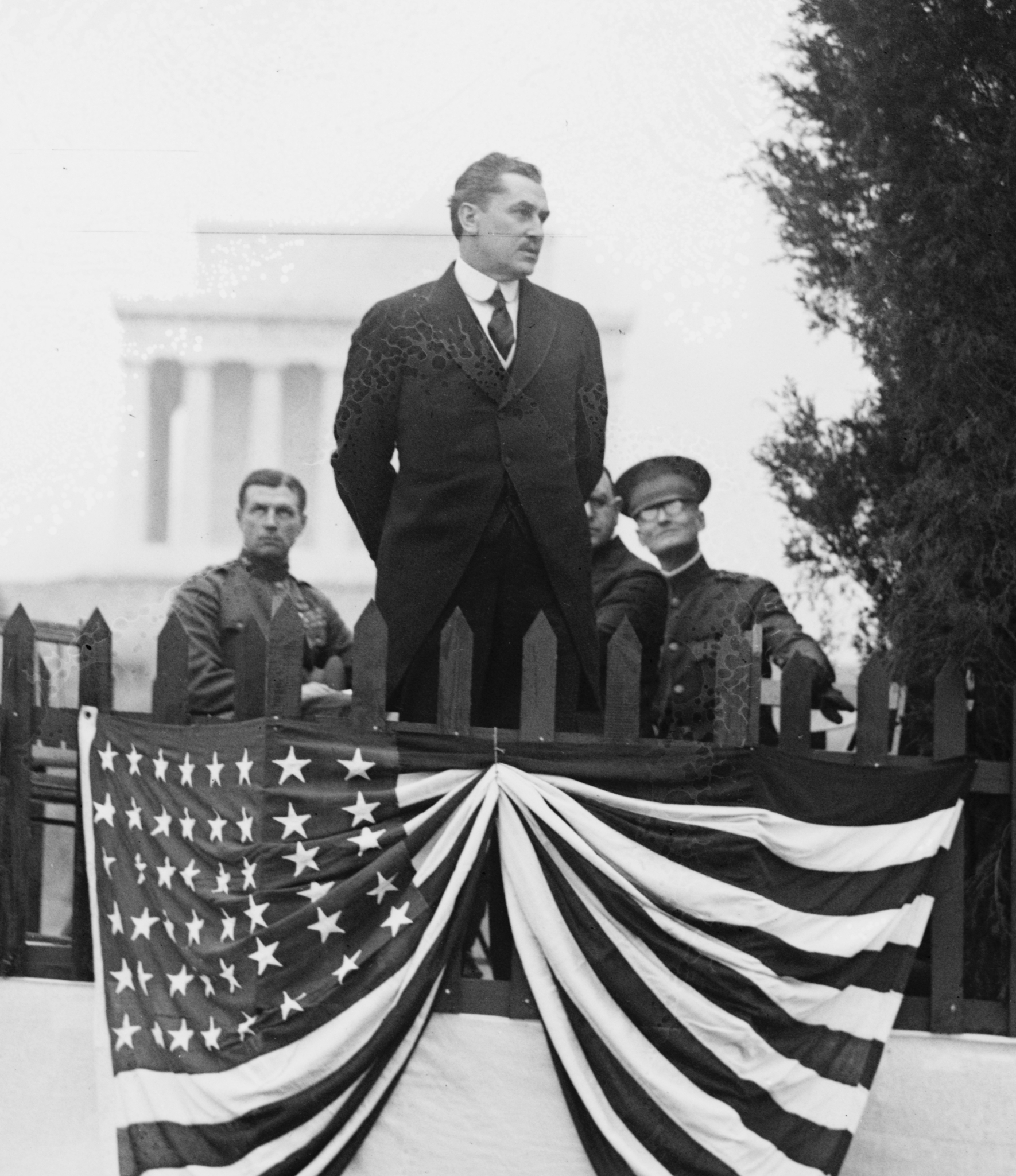 E.T. Meredith Arbor day, ?/16/20